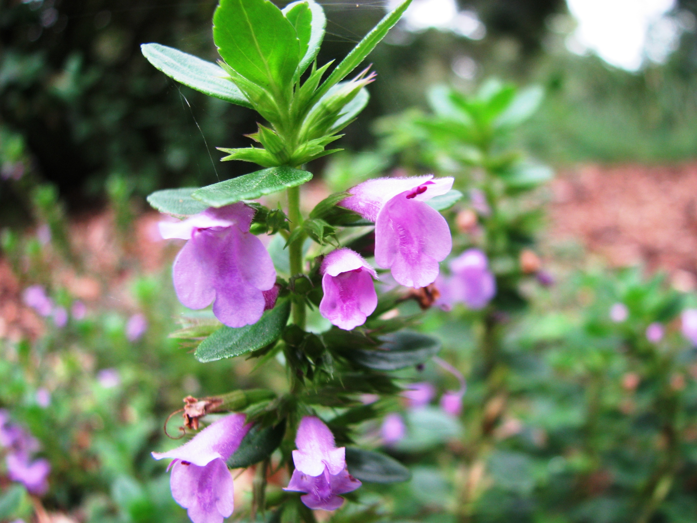 Hesperozygis dimidiata (cultivated, labelled), Royal Botanic Gardens Melbourne, Victoria, Australia